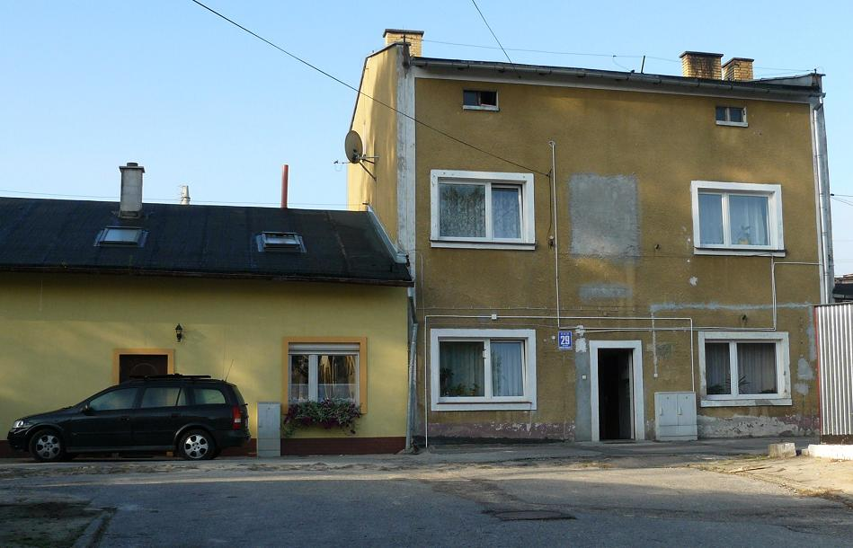 Ex train station Bialogard Narrow Guage (2009).